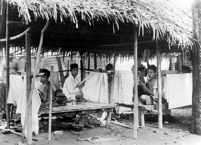 Men busy with batiking loin-cloths in Trusmi, Cirebon